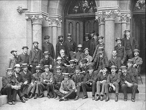 Photograph of the Yale Law School Class of 1883. On the verso of the photograph is this notation: "Back row: 2nd from left, Nathaniel T. Guernsey and 6th from left, Harry Miller. Middle row: 1st from left, George Shiras, III; 3rd from left, Professor Robinson; 4th from left, Professor John Tuttle Platt; 5th from left, Professor William Kneeland Townsend. Front row: 2nd from left, ""Pa"" Briggs, 3rd from left, Daniel Lawler; 4th from left, Carter H. Harrison; 5th from left, Harry Ewing; 6th from left, Dick Trumbull." Retouched by MarmadukePercy.